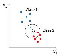 Modelo K-NN de dos clases